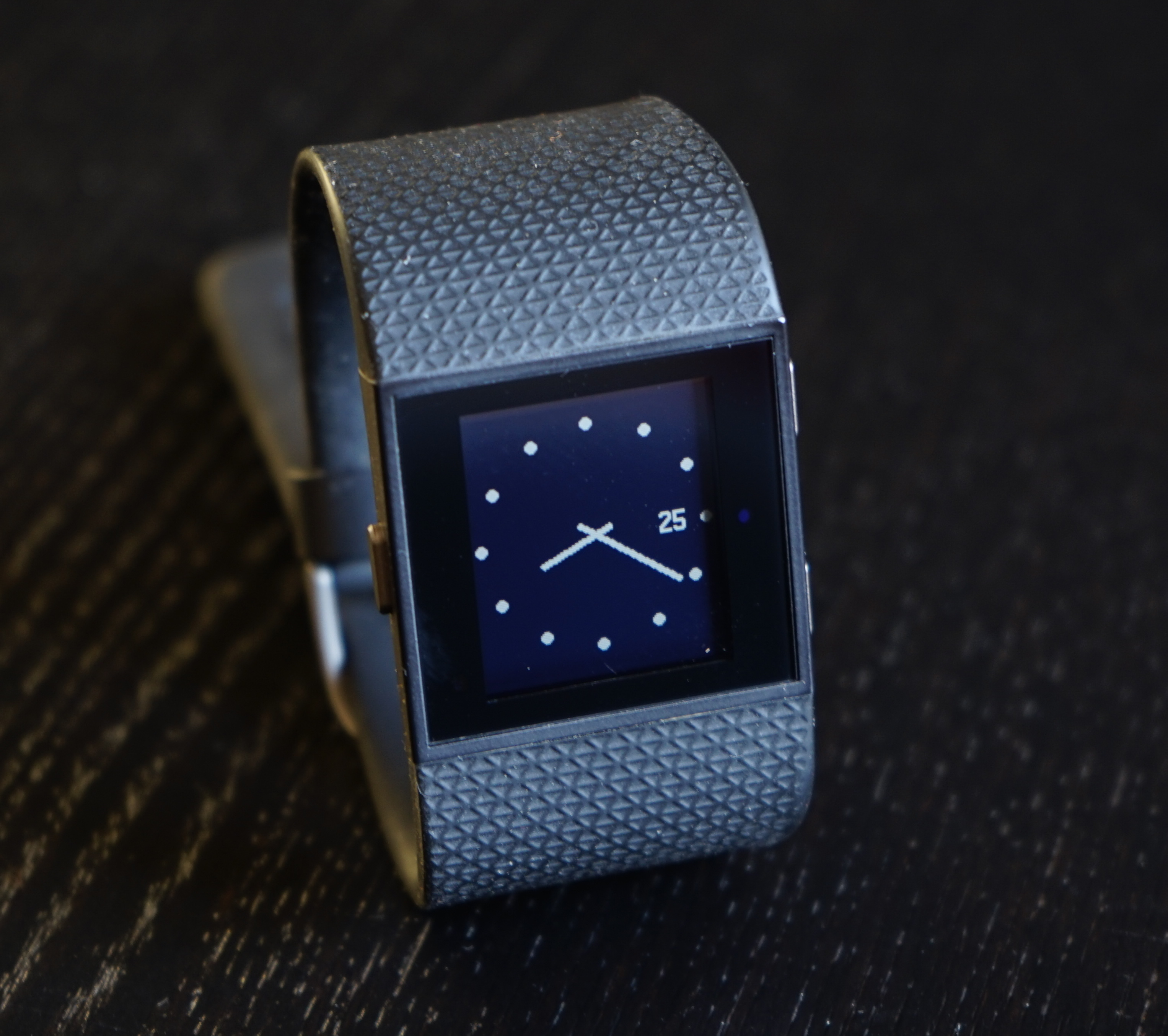 Fitbit Surge smart-watch activity tracker 2015